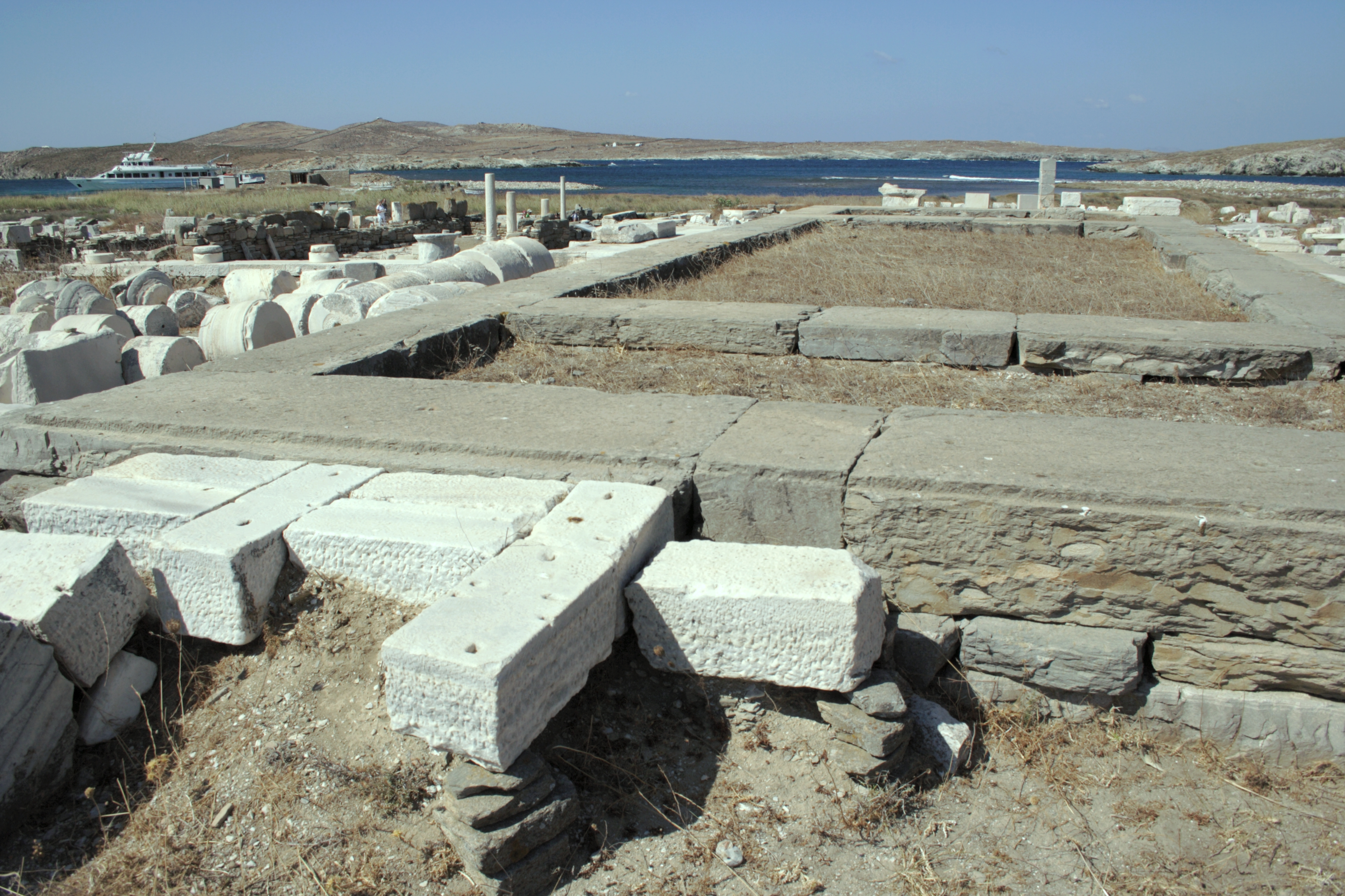 Great Temple of Apollo at Delos. (Temple of hte Delians.) 13 x 30 meters.